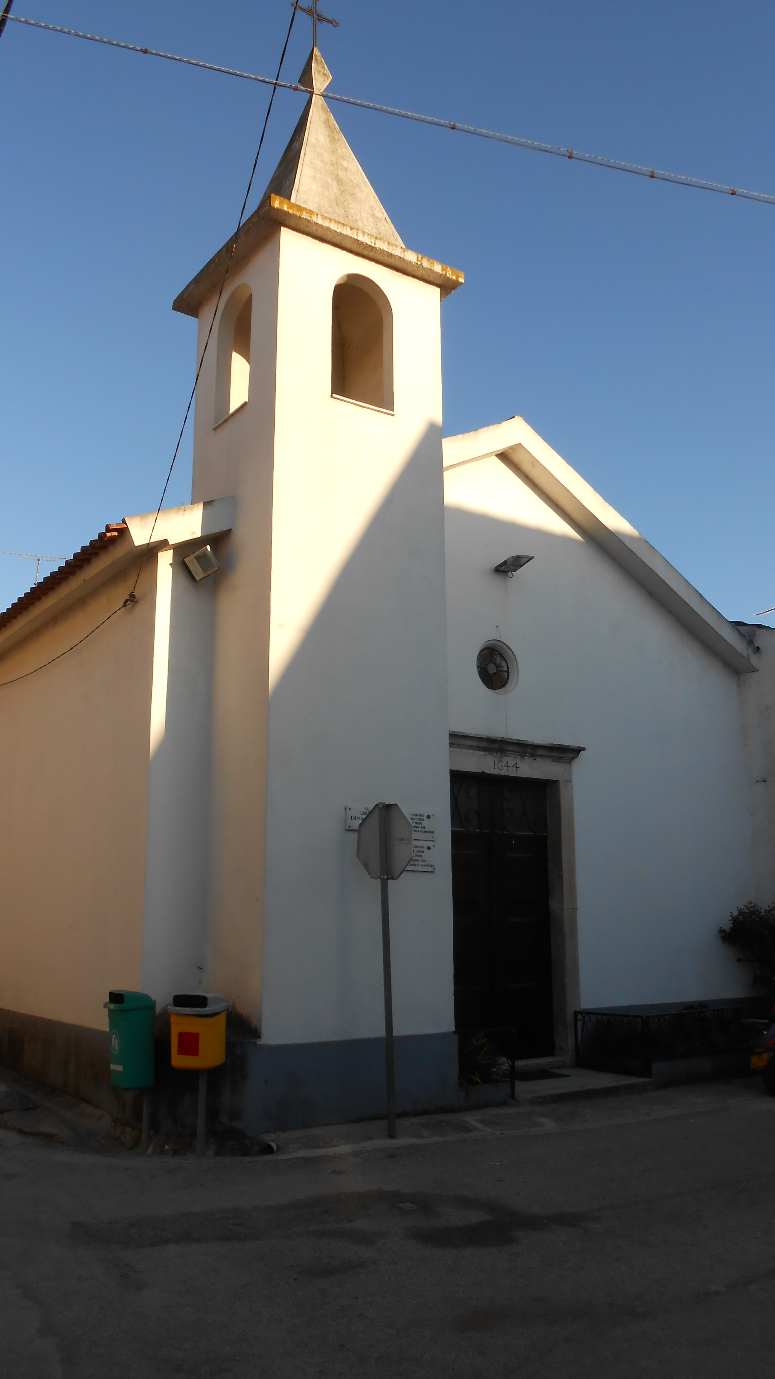 The chapel Capela de Nossa Senhora da Conceição in Vila Nova de Anços, built in 1641 or 1644.